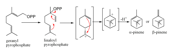 The biosynthesis of pinene, drawn in ChemDraw by User:Walkerma in September 2005.